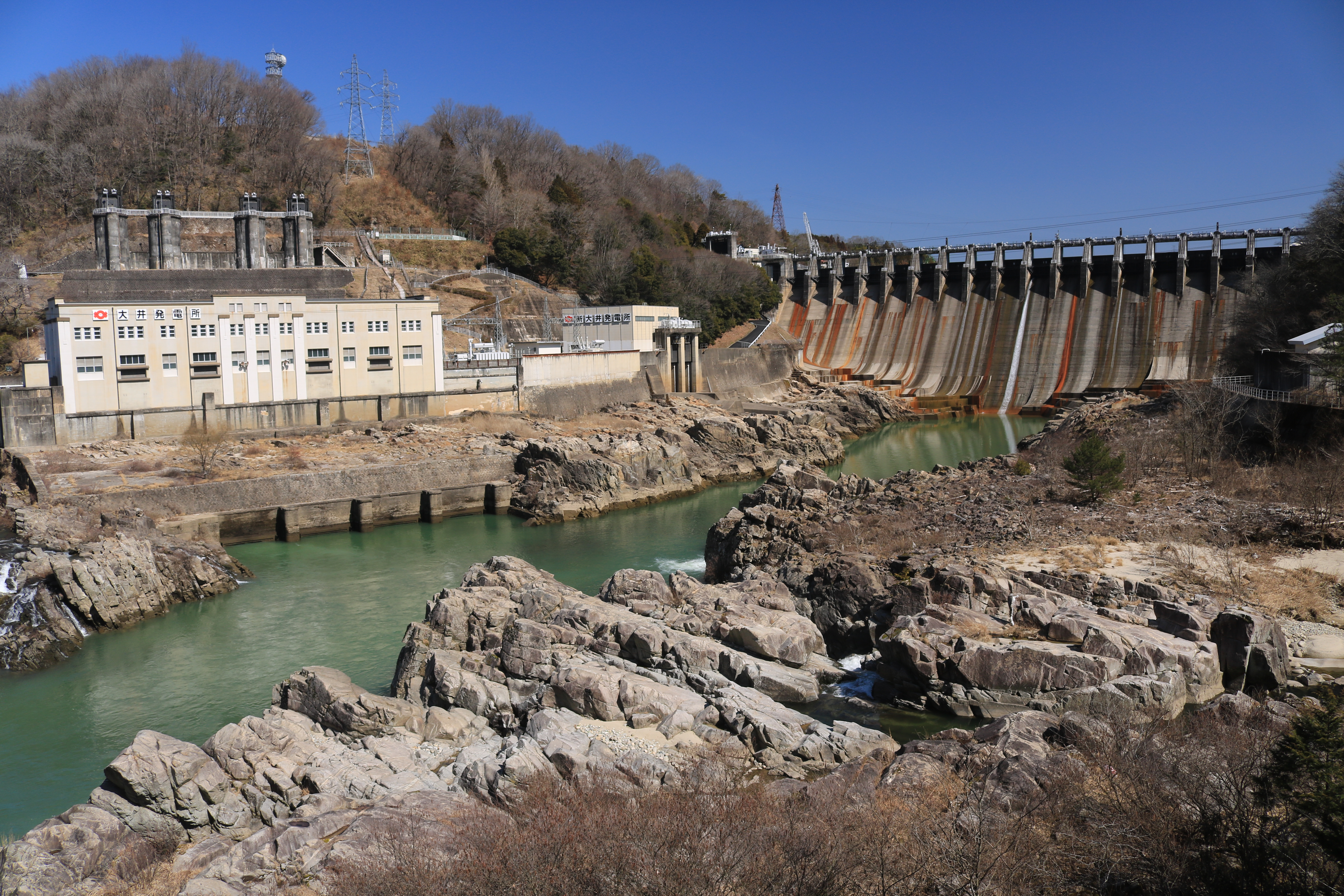 Oi Hydroelectric Power Station seen from Shinonome Bridge over Kiso River in Ena, Gifu prefecture, Japan.